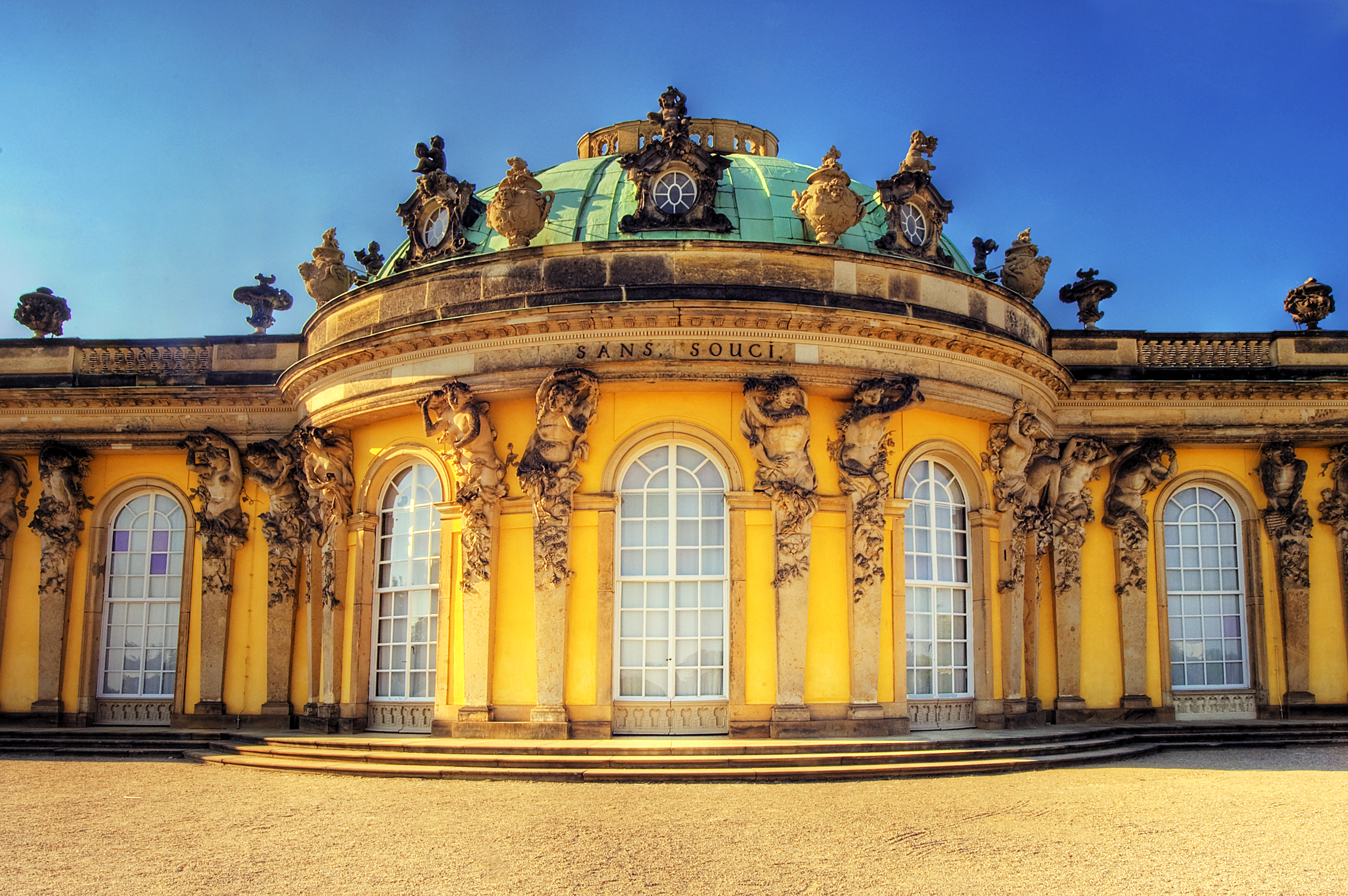 Potsdam Sanssouci Palace